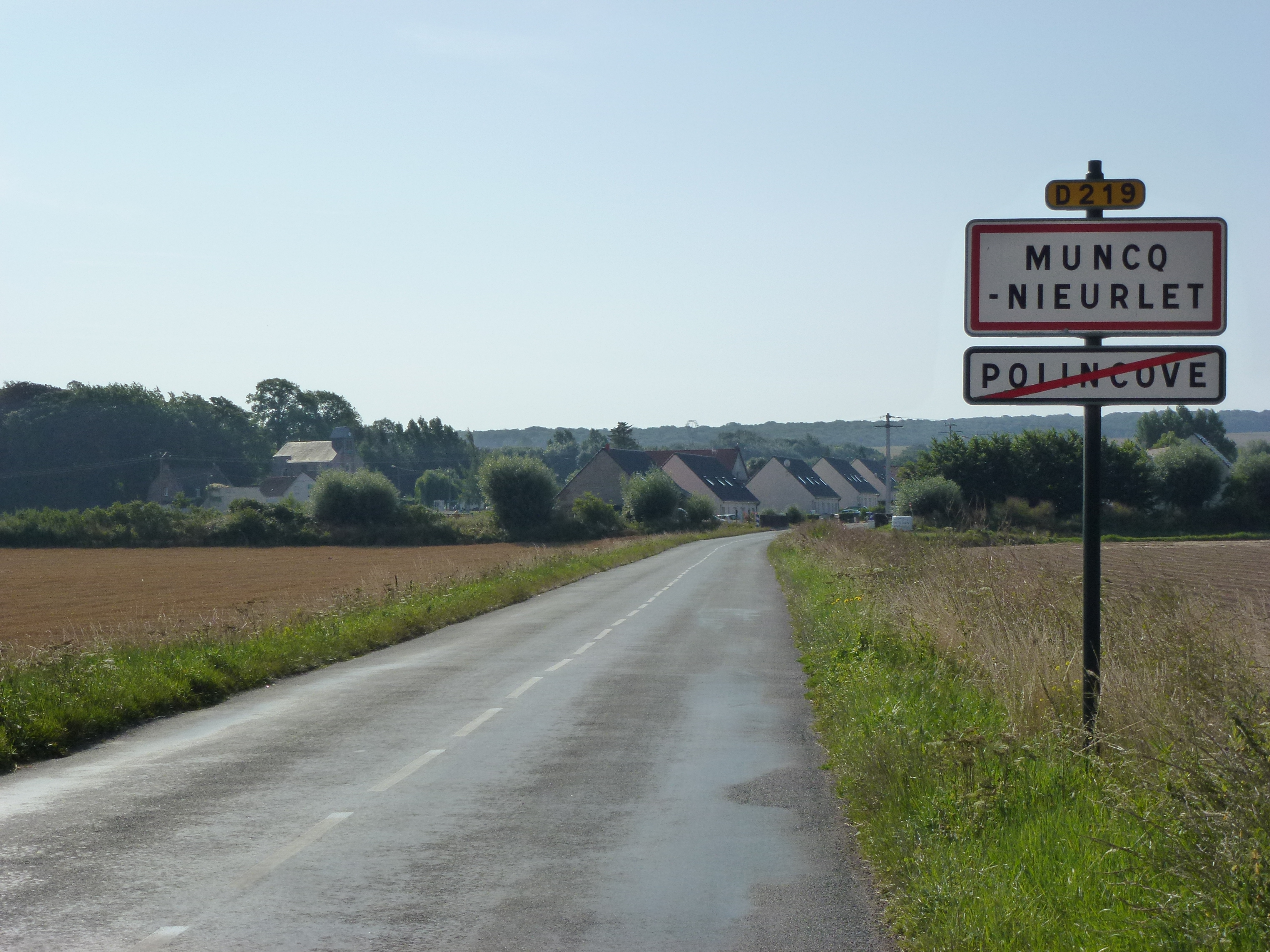 Muncq-Nieurlet (Pas-de-Calais) city limit sign